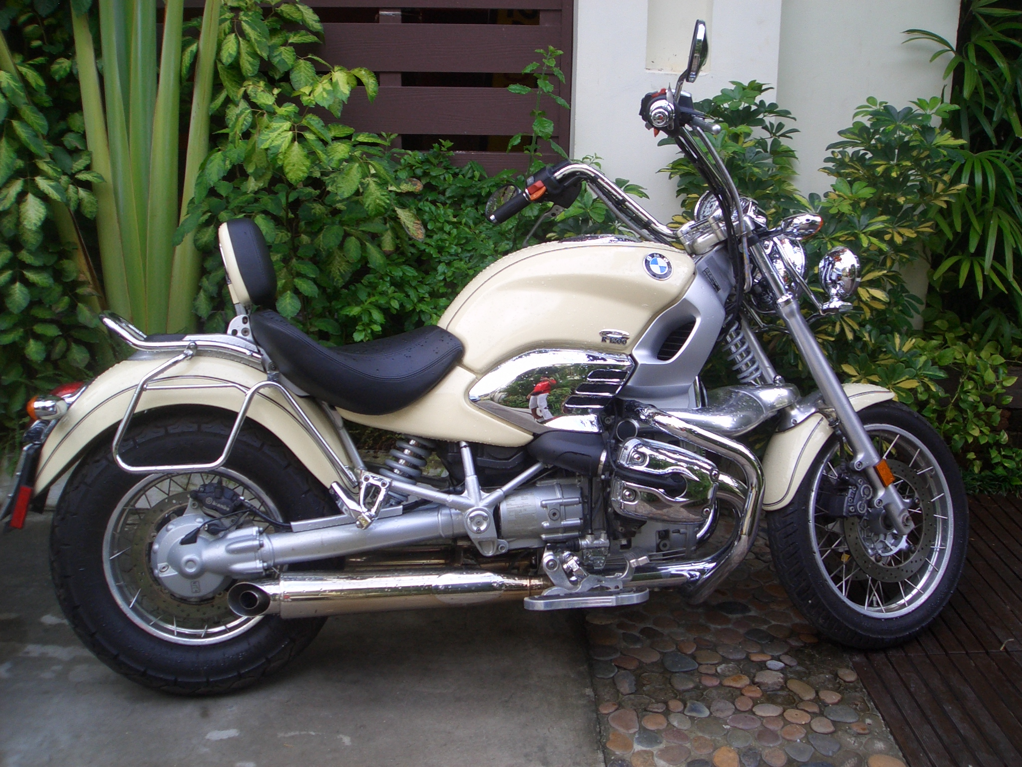 BMW R1200C parked in front of the Burasari resort in Phuket, pretty awesome!